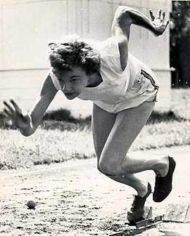 Marjorie Jackson